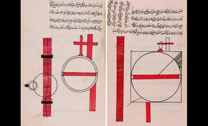 Diagrams from Al-Karaji's 11th Century work on qanats